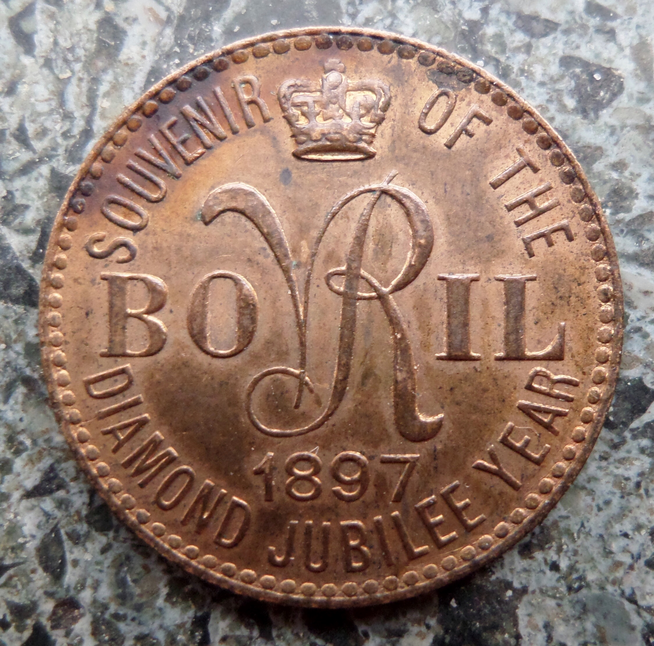 Bovril 1897 Queen Victoria diamond jubilee advertising token. Not the use of the 'VR' as the Queen's monogram.